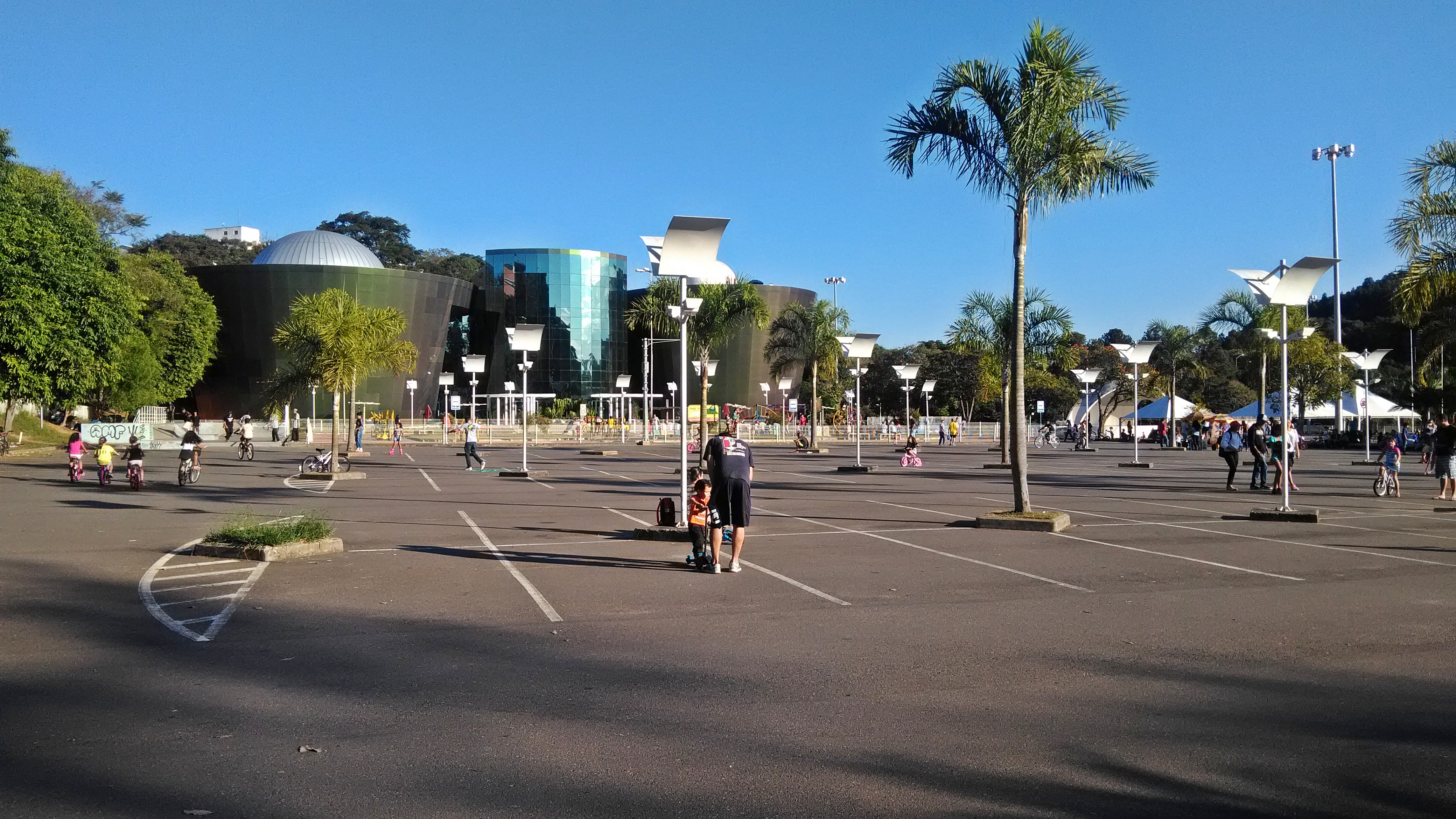 Parking of the Praça Cívica (Civic Square) of the Federal University of Juiz de Fora (UFJF) being used by the population on a sunday afternoon, in Juiz de Fora, Minas Gerais, Brazil.